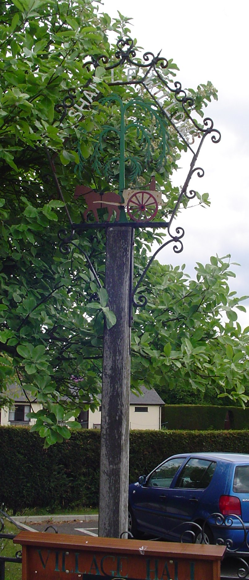 Signpost in Walsham-le-Willows